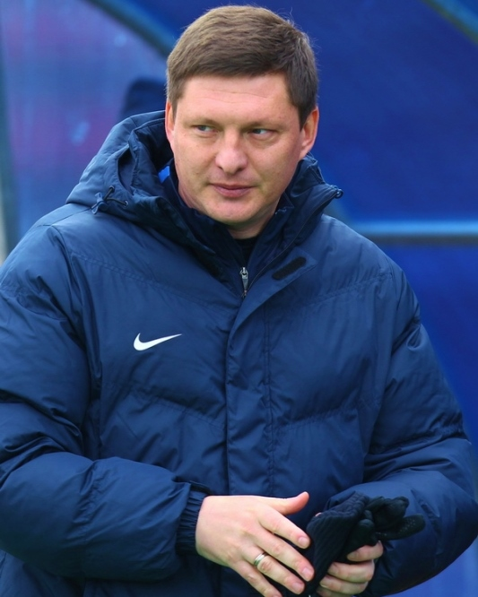 Andrei Gordeev